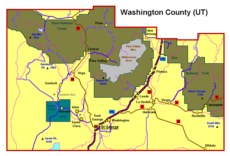 Washington County (UT),Detail, selfmade graphic by R.Blauert (dk4hb)